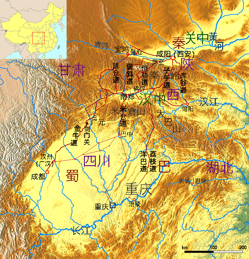 Map of the ancient Shu-Roads, in Pinyin Shǔdào